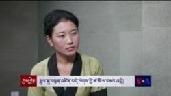 Interview with Nyima Lhamo, niece of Tenzin Delek Rinpoche.